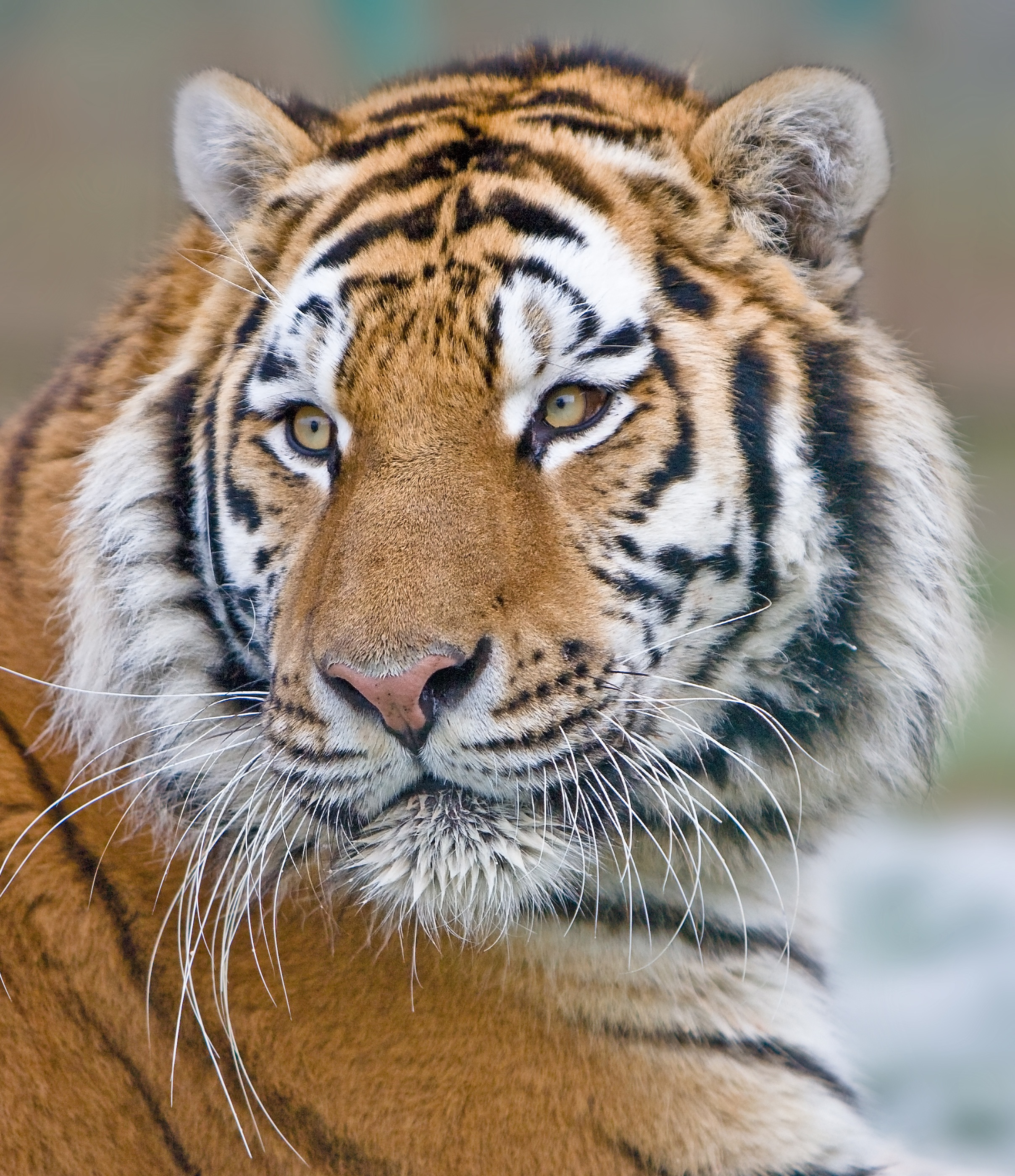 Portrait of a Tiger. Makari from the Wildlife Heritage Foundation.